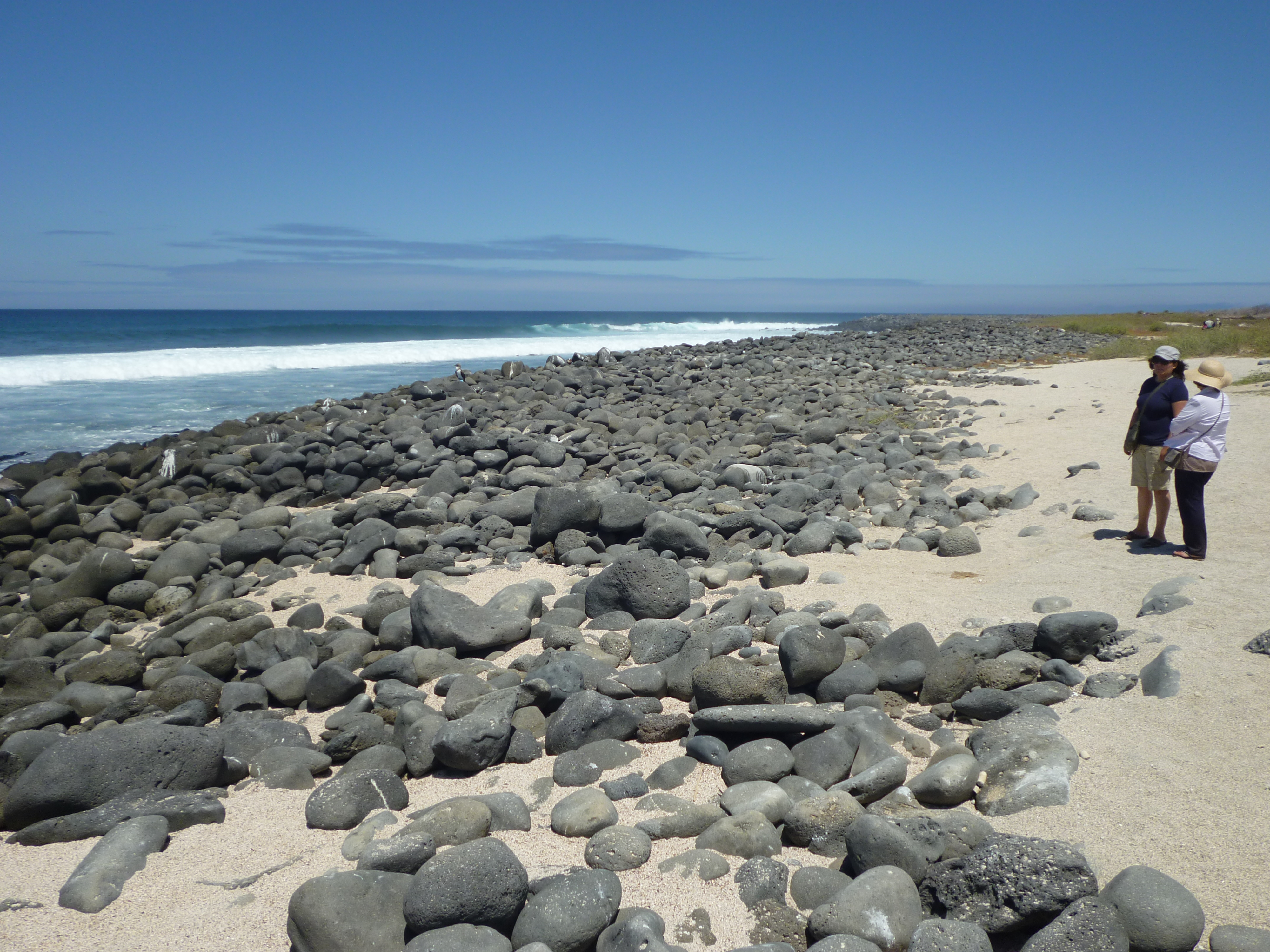 Beach in North Seymour Island Galapagos